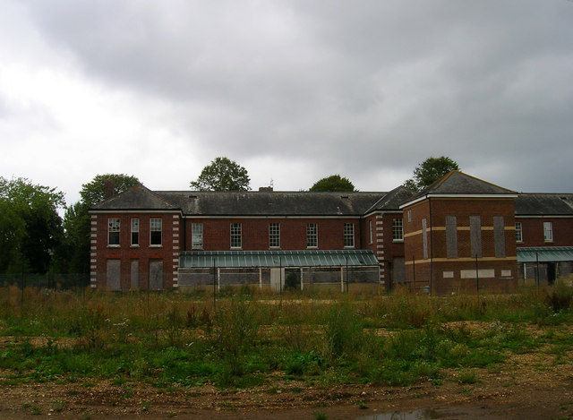 Gordon House, Chichester. Formerly part of the Graylingwell Hospital complex now awaiting another fate. The building itself is reached by a series of new roads that have been recently built and are not currently marked on the map.